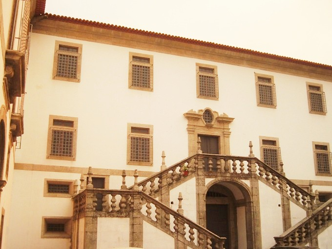 This file was uploaded for Wiki Loves Monuments in Portugal with the unique identifier 70519.